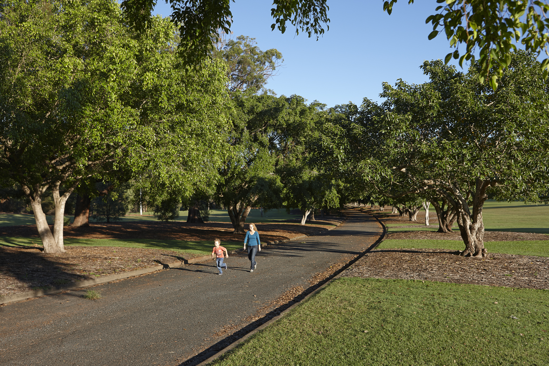 Tree-lined path in Yeronga Memorial Park